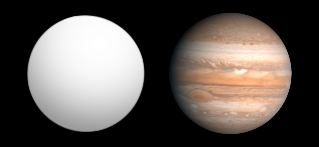 Comparison of best-fit size of the exoplanet HAT-P-12 b with the Solar System planet Jupiter, as reported in the Open Exoplanet Catalogue[1] as of 2010-09-30. ↑ Open Exoplanet Catalogue (2010-09-30). Retrieved on 2010-09-30.